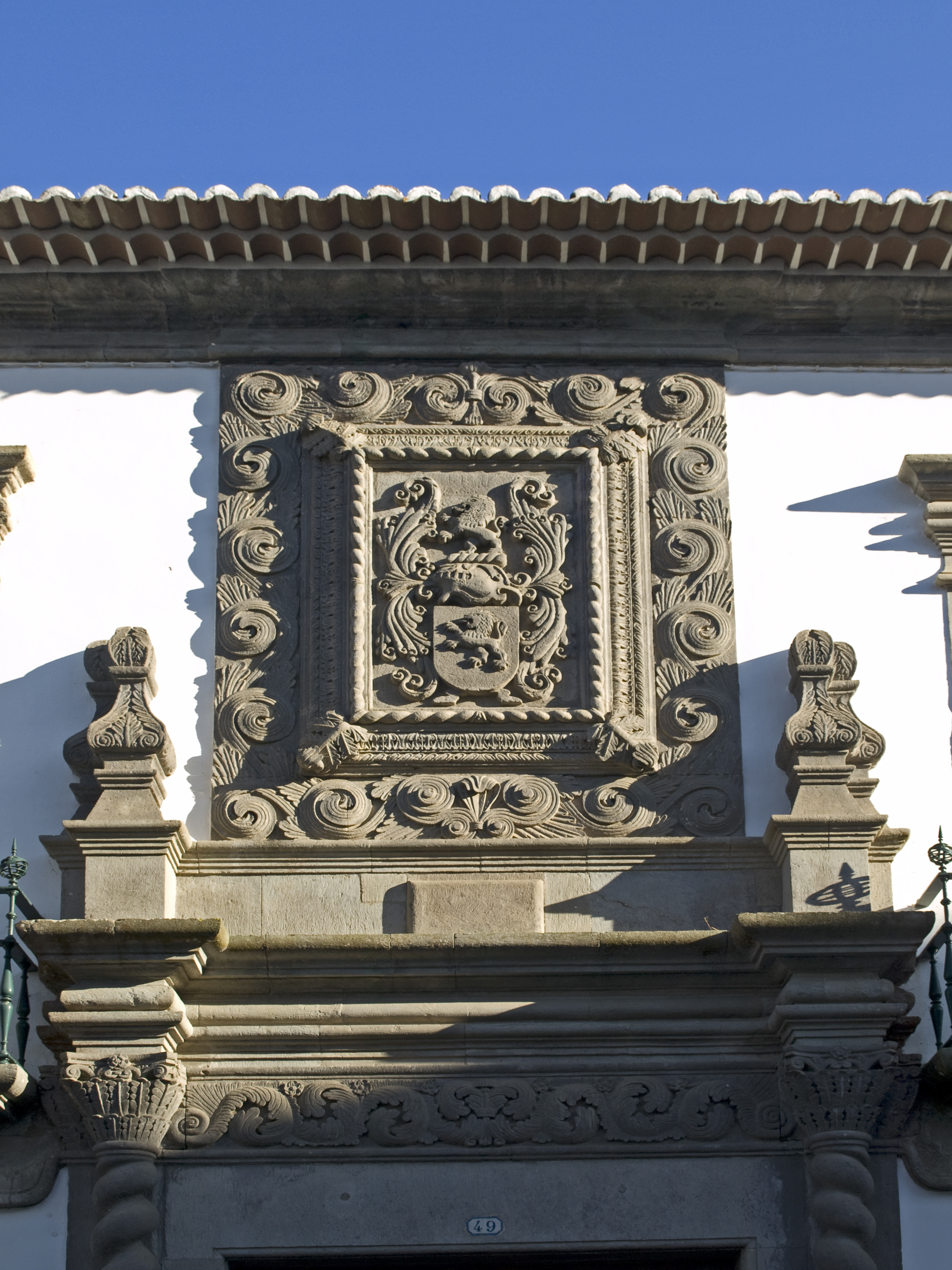 Palácio Bettencourt, coat of arms above the entrance